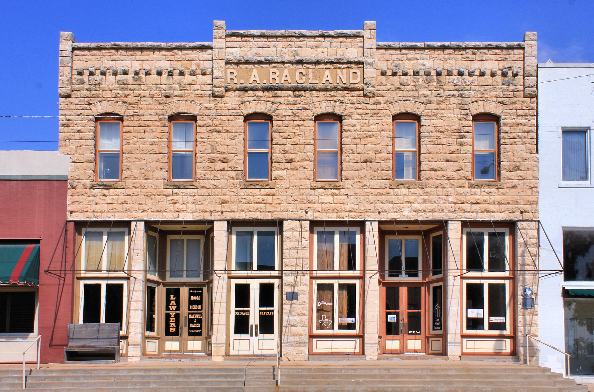 The R.A. Ragland Building in Sweetwater, Texas, United States. The first floor of the building was constructed in 1901 and the second story added in 1906. The building was listed individually on the National Register of Historic Places on May 14, 1979 and as a contributing structure to the Sweetwater Commercial Historic District on June 7, 1984. It was also designated a Recorded Texas Historic Landmark in 1979.